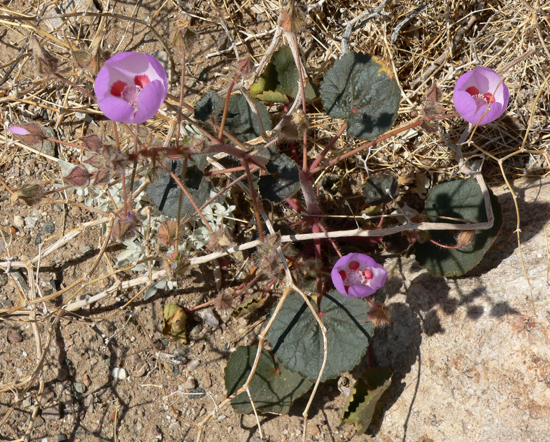 Eremalche rotundifolia — Desert five-spot. Near Beatty Cutoff Road, in Death Valley, Death Valley National Park, eastern California.